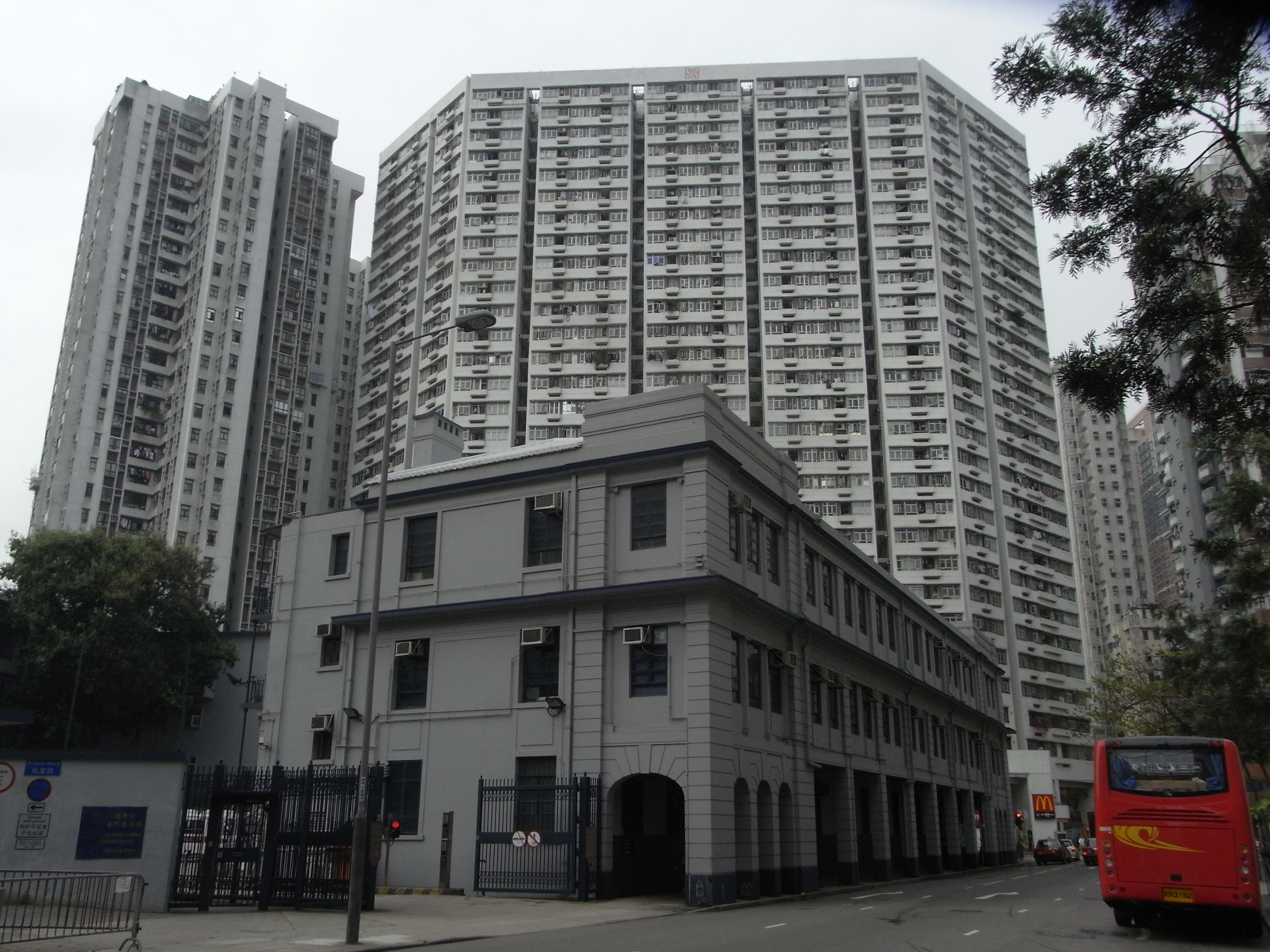 油麻地 廣東道 油麻地警署 & 駿發花園